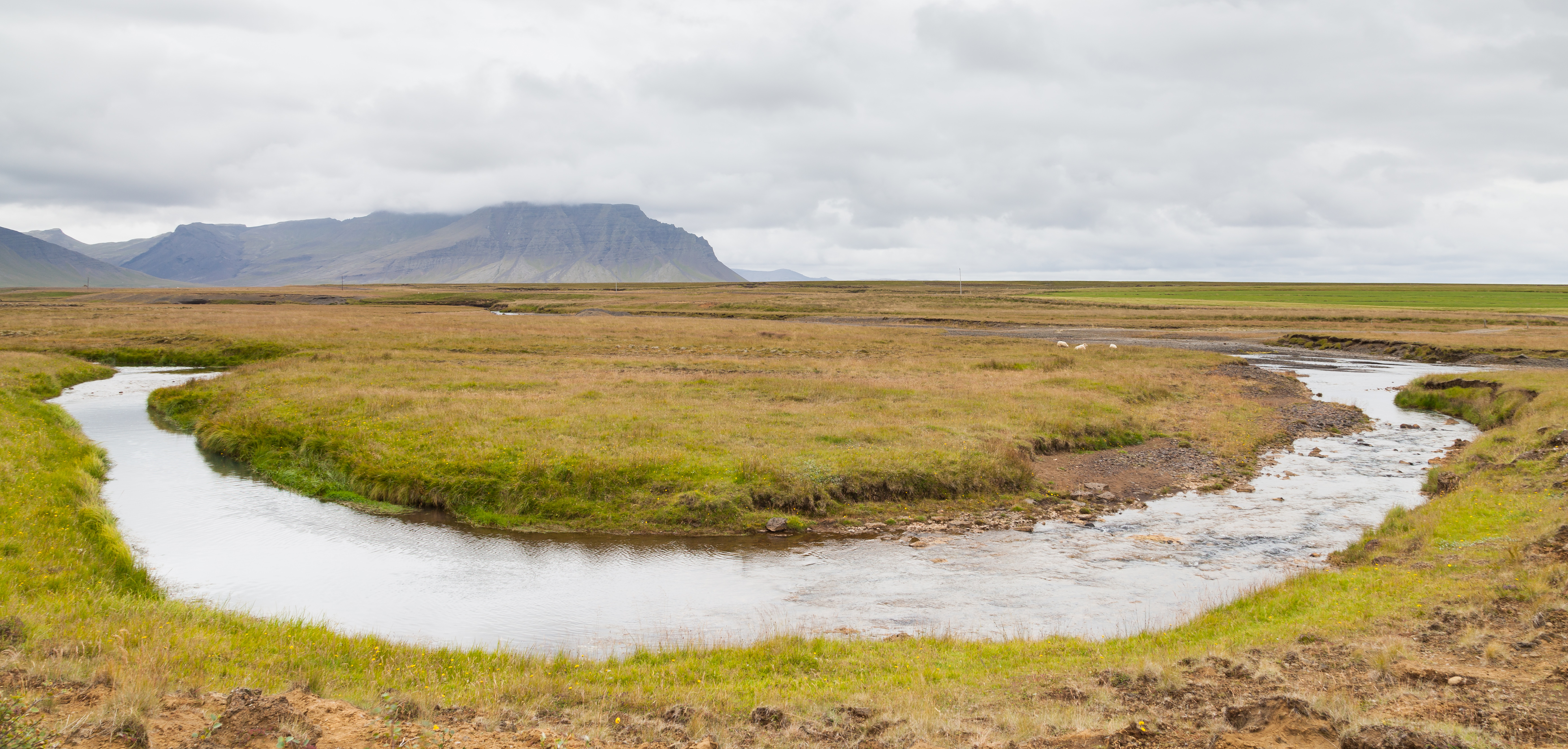 River near the Eldborg crater, Vesturland, Iceland